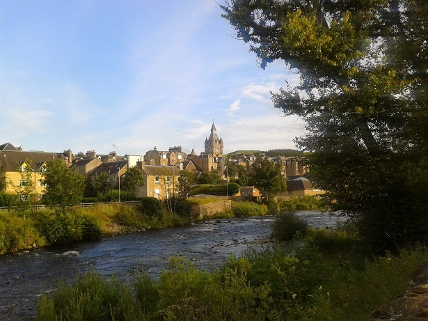 Hawick Roxburghshire, from River Teviot with old Town Hall in the background